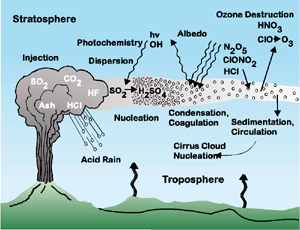 Schematic of volcano injection of aerosols and gases. (figure modified from Richard Turco in American Geophysical Union Special Report: Volcanism and Climate Change, May 1992) Acid rain also occurs from air pollution.